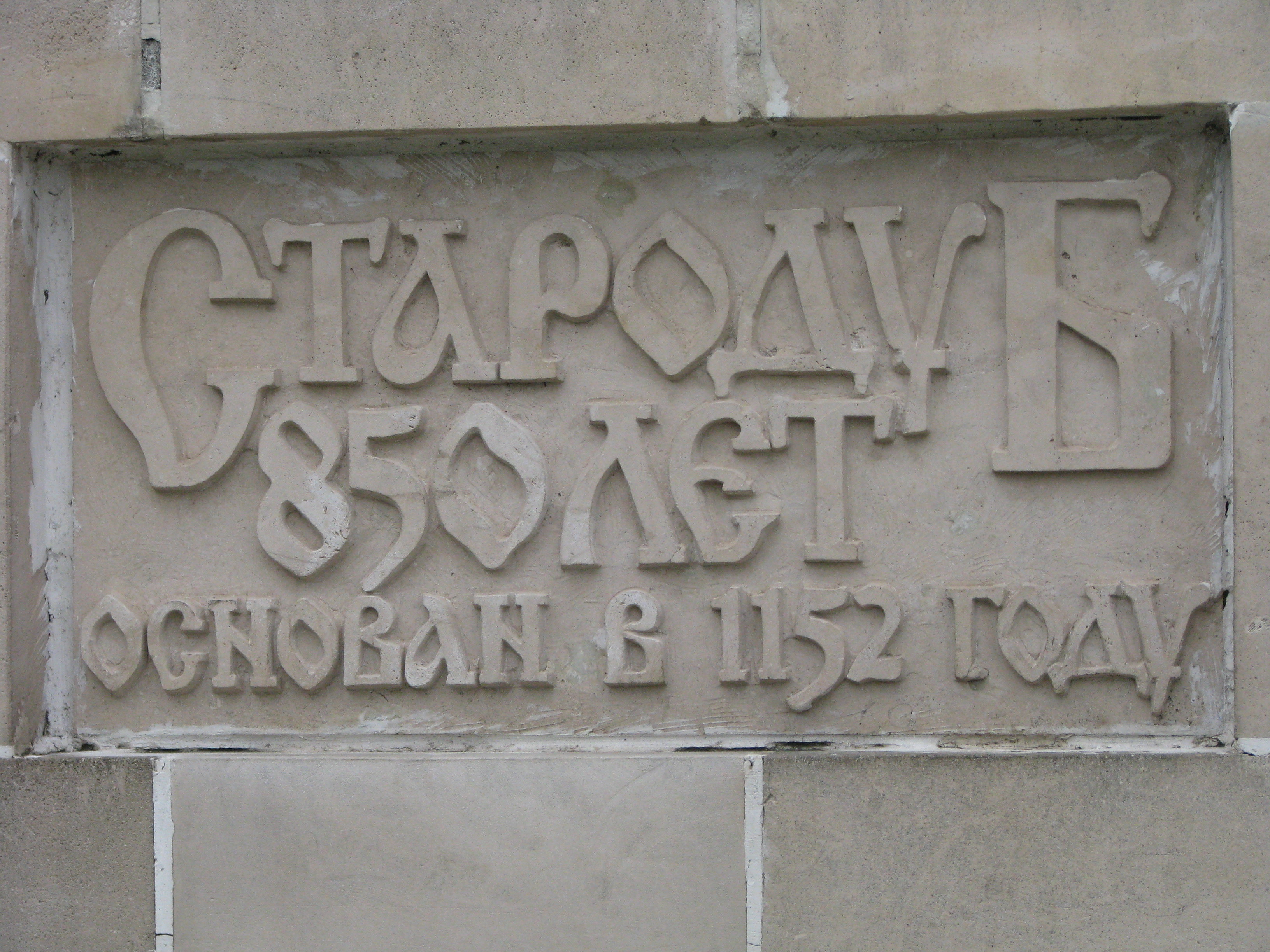 Starodub-on-the-Klyazma, 850 Ann. Memorial. Detail. Russia, Vladimir region.